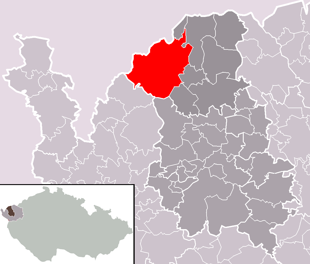 Location of Kraslice town within Sokolov District and administrative area of Kraslice as a Municipality with Extended Competence.